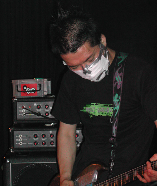 Ichirou Agata, the guitarist of japanese music band Melt-Banana. Live in Frankfurt am Main (Germany) at "Nachtleben", November 29, 2005